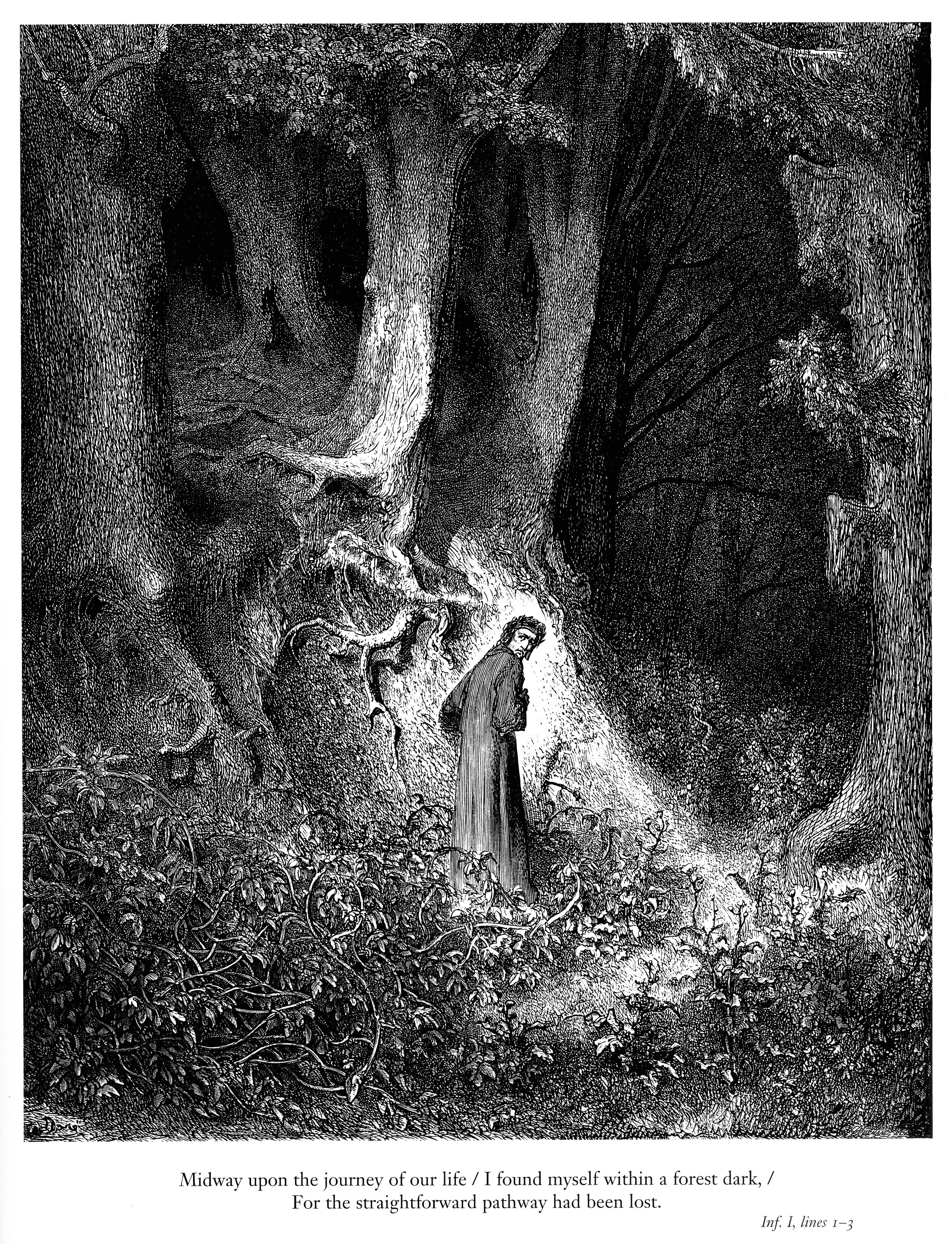 Gustave Doré's illustration to Dante's Inferno. Plate I: Canto I, Opening lines